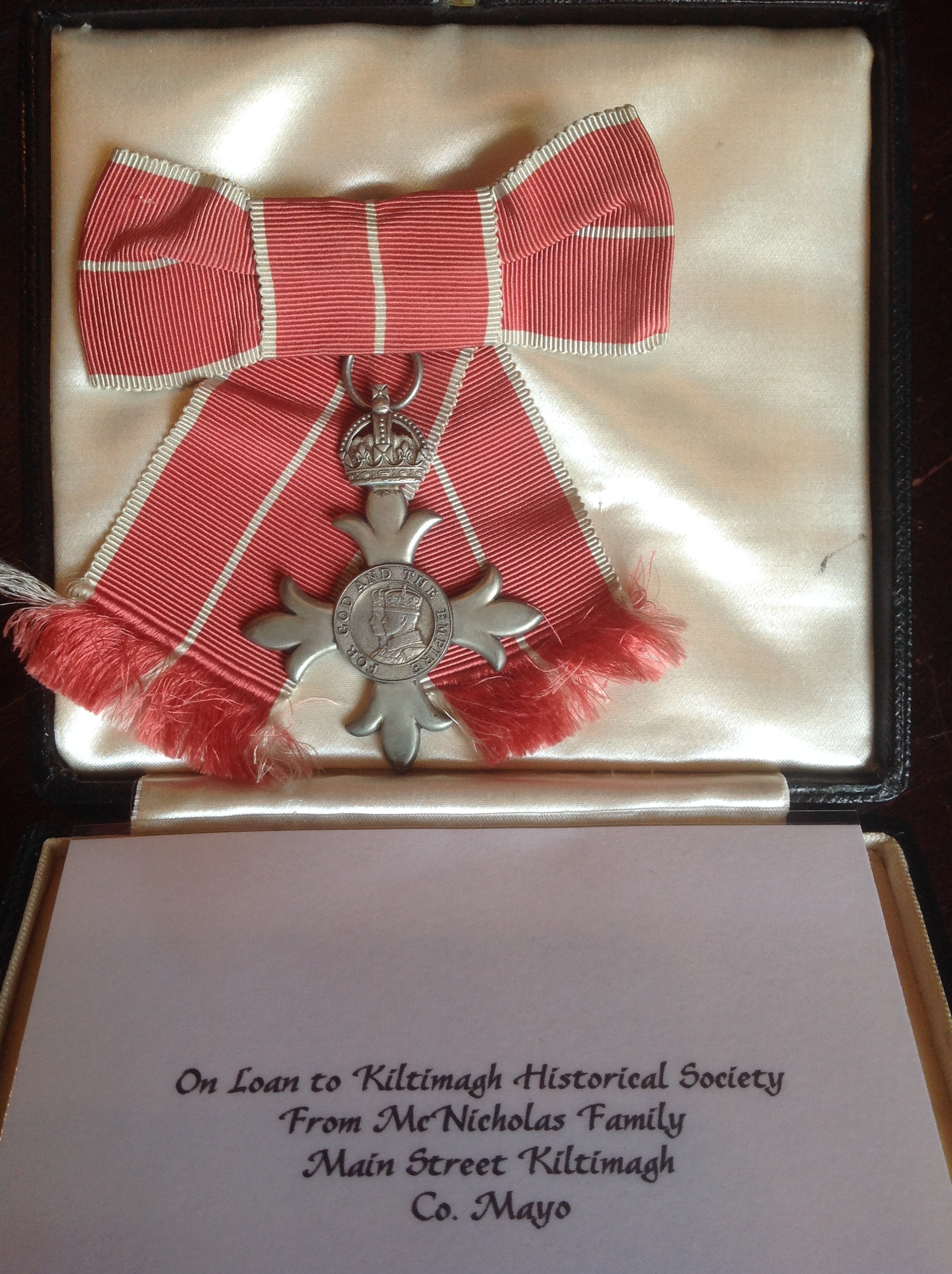 A red ribbon in a bow with a cross shaped medal with 'fleur de lit' arms